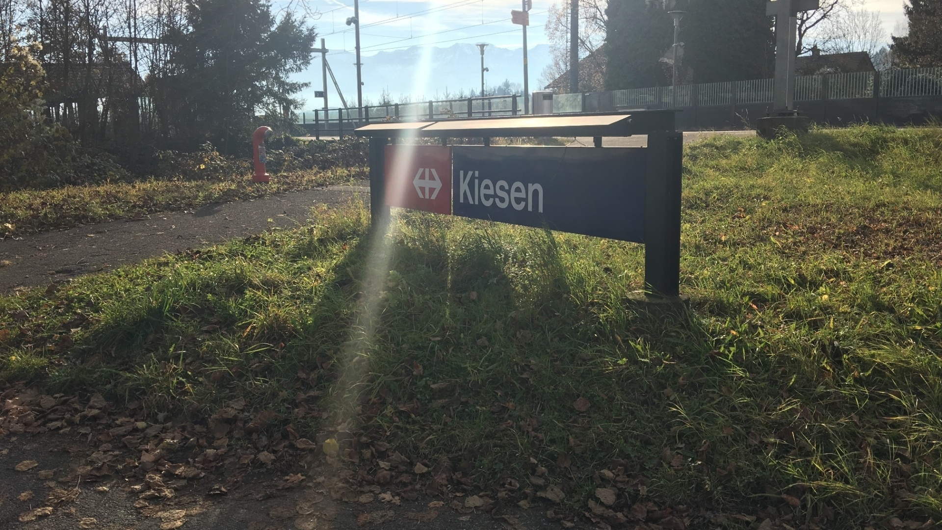 Kiesen railway station in Kiesen, Switzerland.